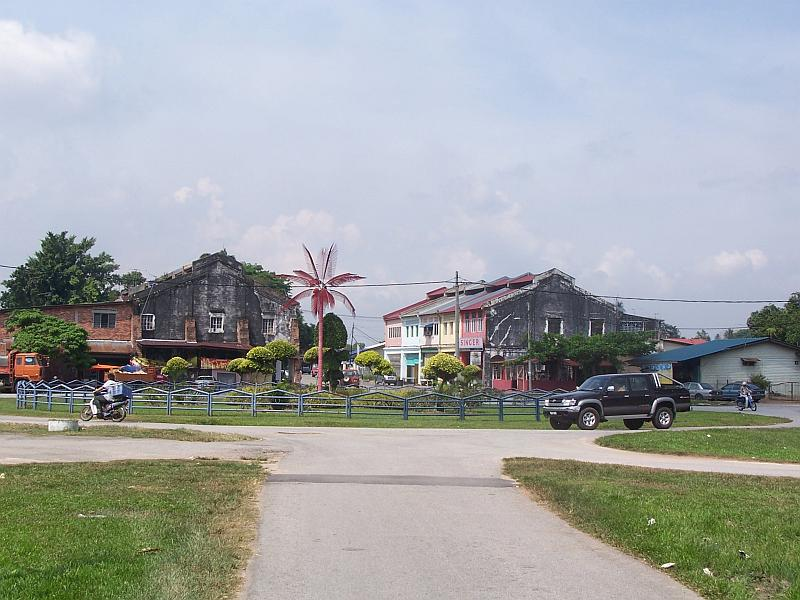 Batu Arang town...releasing this under the GFDL licence, for my love of the town!